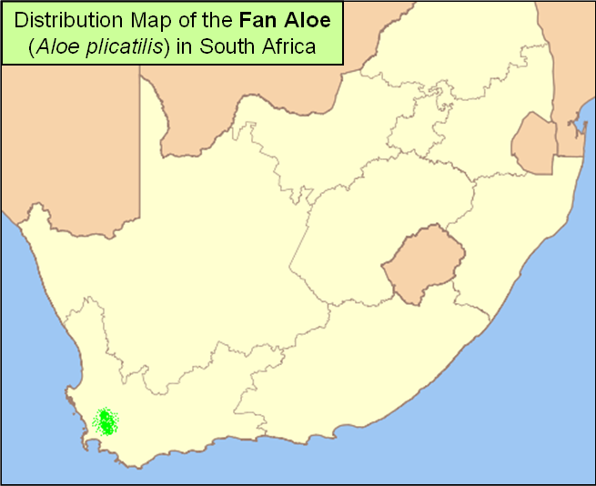 Distribution Map of the Aloe species Aloe plicatilis in the Western Cape of South Africa. In the mountains between and around the towns of Franschoek and Tulbagh. Map created using info from common knowledge and public Red Data List of South African species.